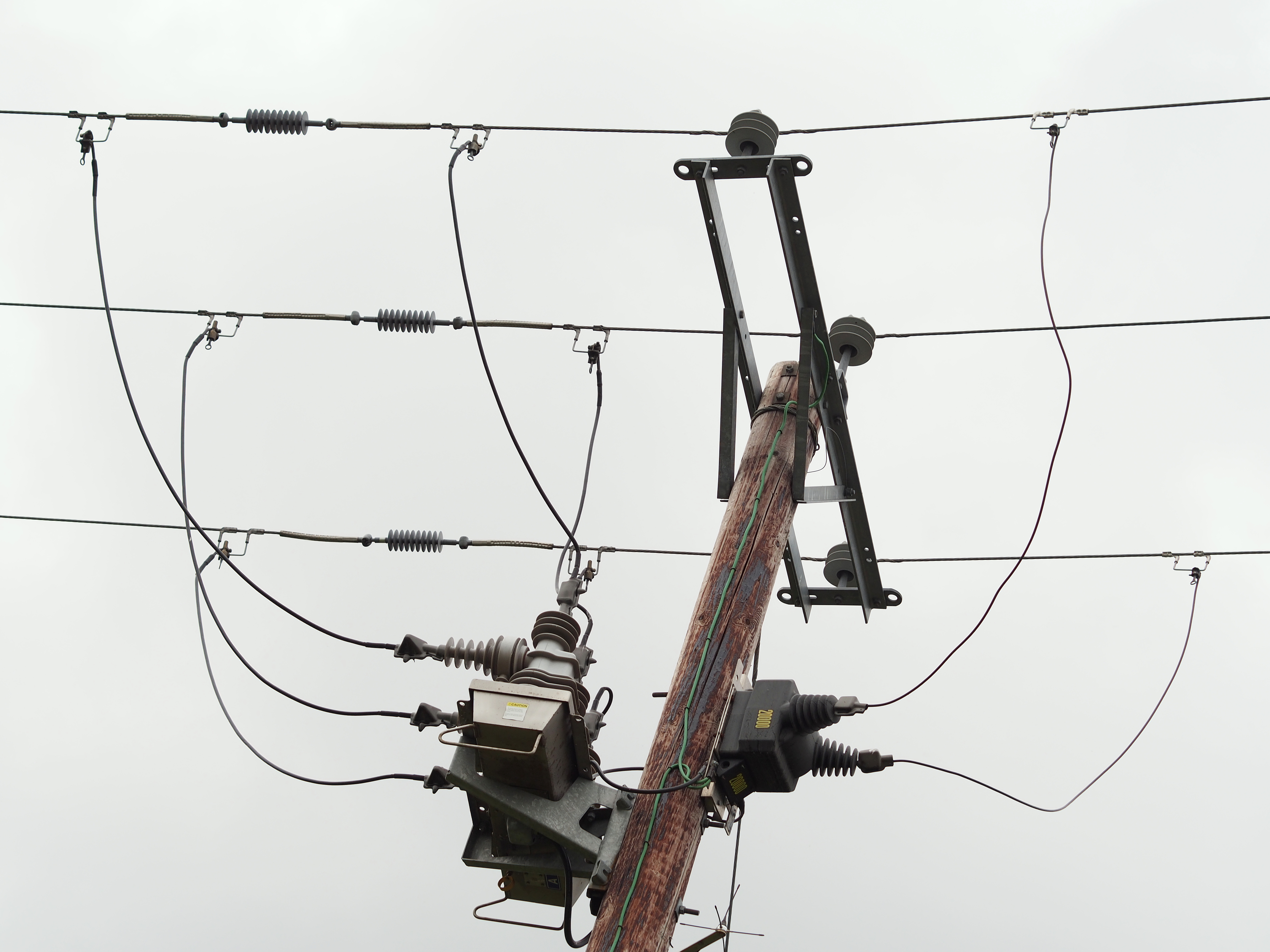 Tap and circuit breaker on a 20 kV line in North Yorkshire